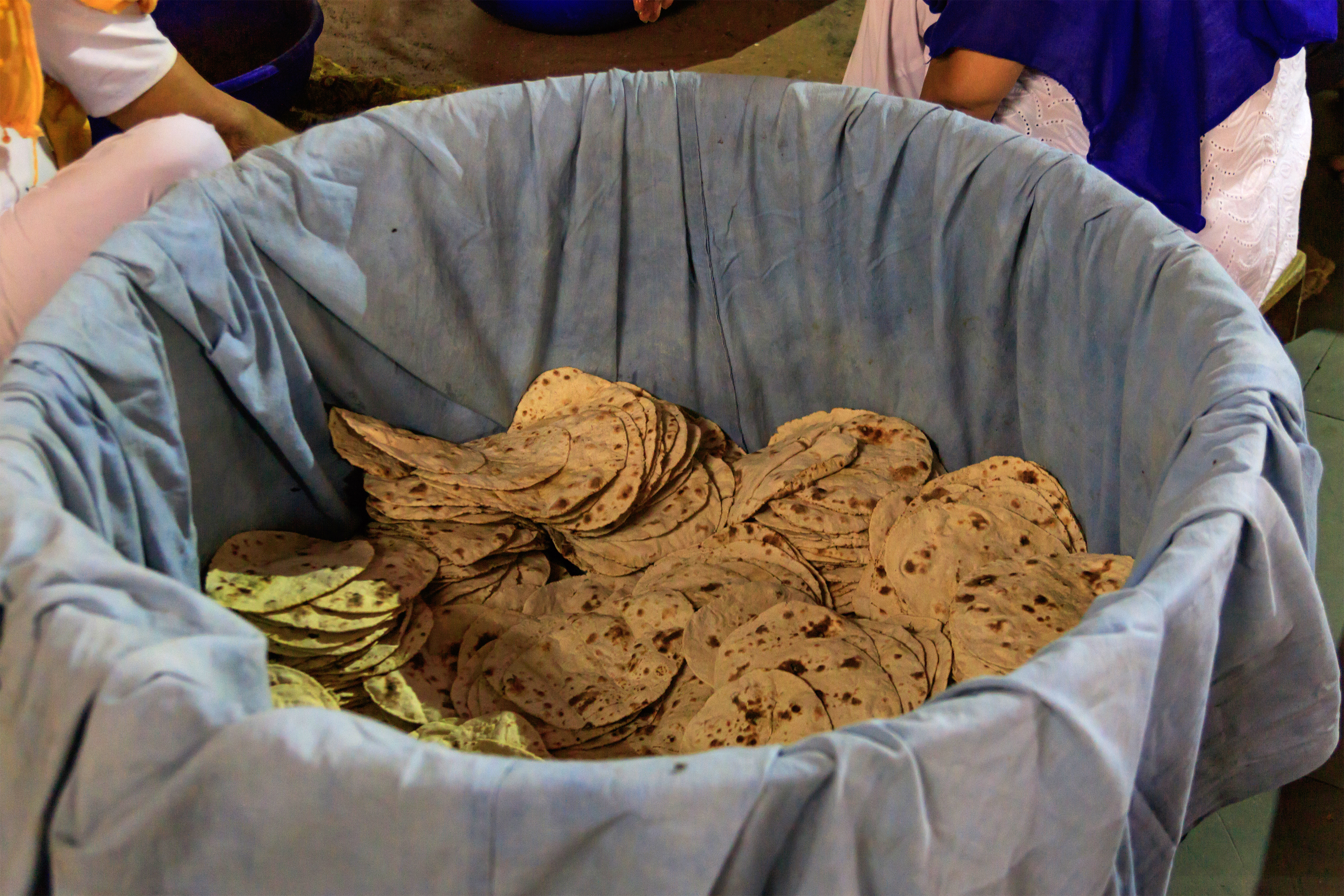 Gurudwara Bangla Sahib (Sikh temple) in New Delhi, India. Preparation of bread in the temple's kitchen.